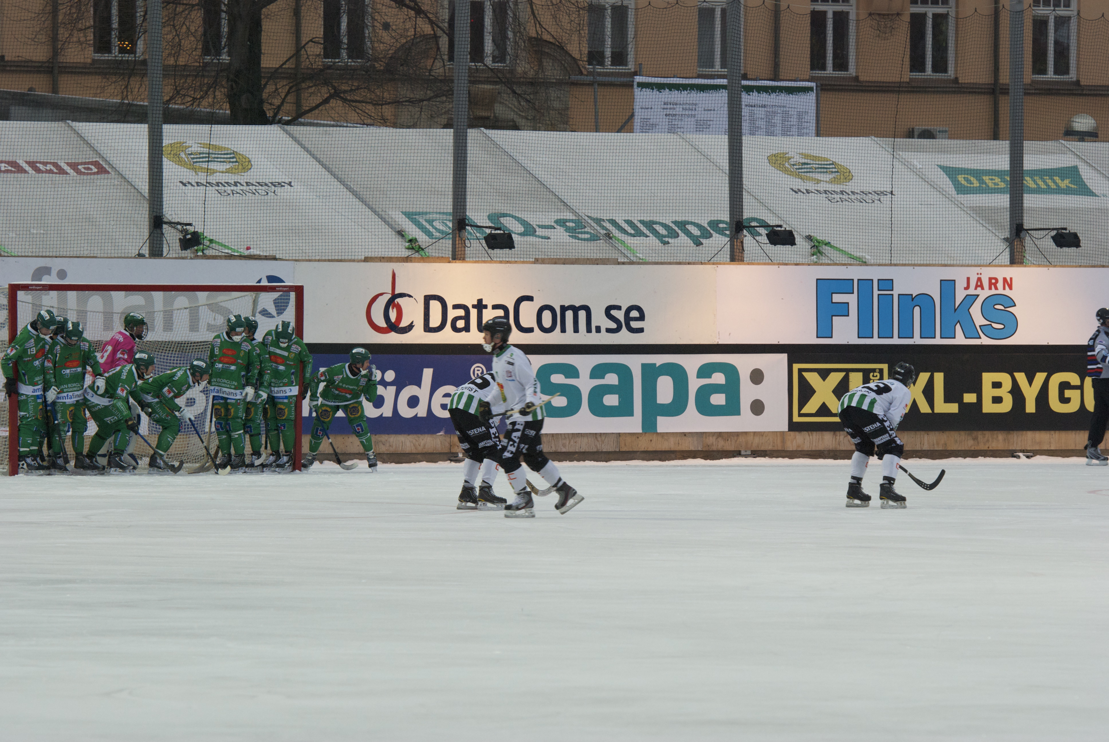 Corner-stroke in Bandy. When the ball has wholly crossed the goal line without a goal having been scored and having last been touched by a member of the defending team; awarded to attacking team. The defending team must locate themselves behind goal line and the attacking team must be situated outside the penalty area with everyone but the executor no closer to the shortline than 5 m. As soon as the corner is shot, the attackers may enter the penalty area and the defenders may rush to try to stop the ball. Bandy match between Hammarby (Green) and GAIS (White) in Elitserien, Zinkendamms IP (Stockholm) 2012-02-11.